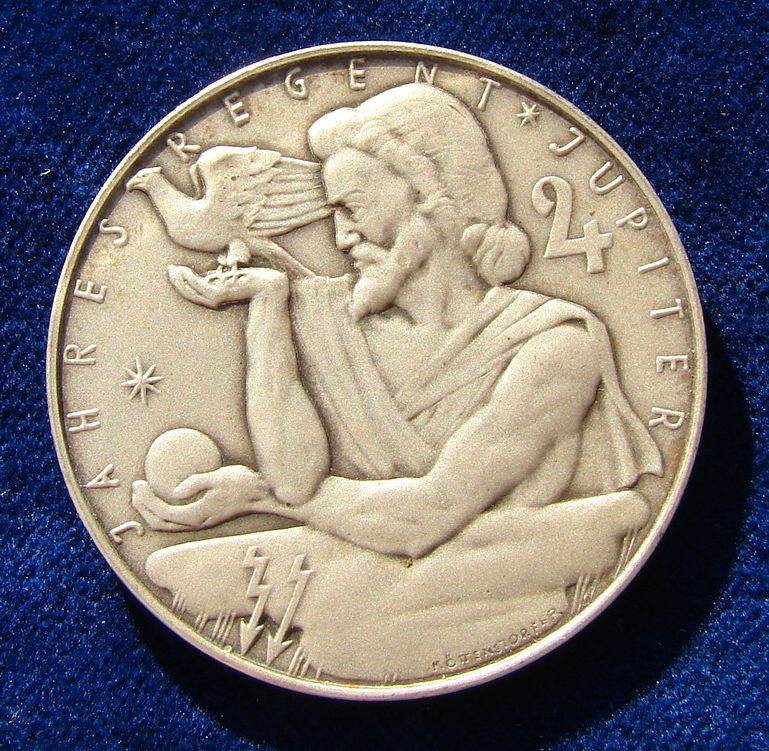 Silvered bronze, d. = 40 mm. Bust of Jupiter l., holding his Eagle in his right hand, lightning going down at l. below, curved above: "JAHRES REGENT JUPITER" / 1959 Calendar showing the Sundays, in 2 lines around showing the dates of the Christian holidays that were celebrated in Austria. Editor: Münze Wien. Medallist: (Prof. Hans) Köttenstorfer, medallist in Vienna, 1911 Steyr - 1995 Steyr, Oberösterreich, Austria Condition : UNCIRCULATED